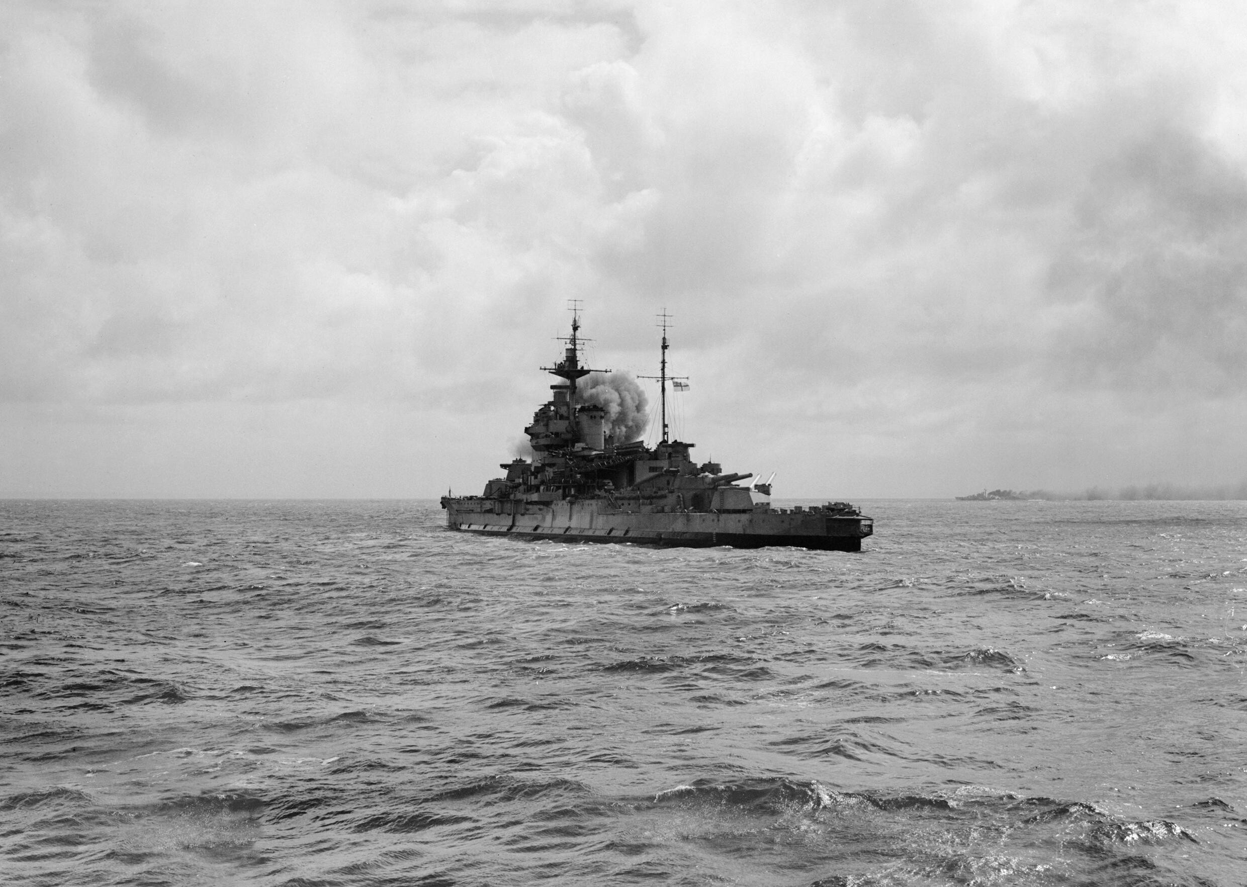 HMS WARSPITE bombards enemy positions on the Normandy Coast, 6 June 1944. The 15 inch guns of HMS WARSPITE bombard enemy positions on the Normandy Coast on D-Day. HMS WARSPITE formed part of the escort for the big ships off Le Havre (photographed from the frigate HMS HOLMES).